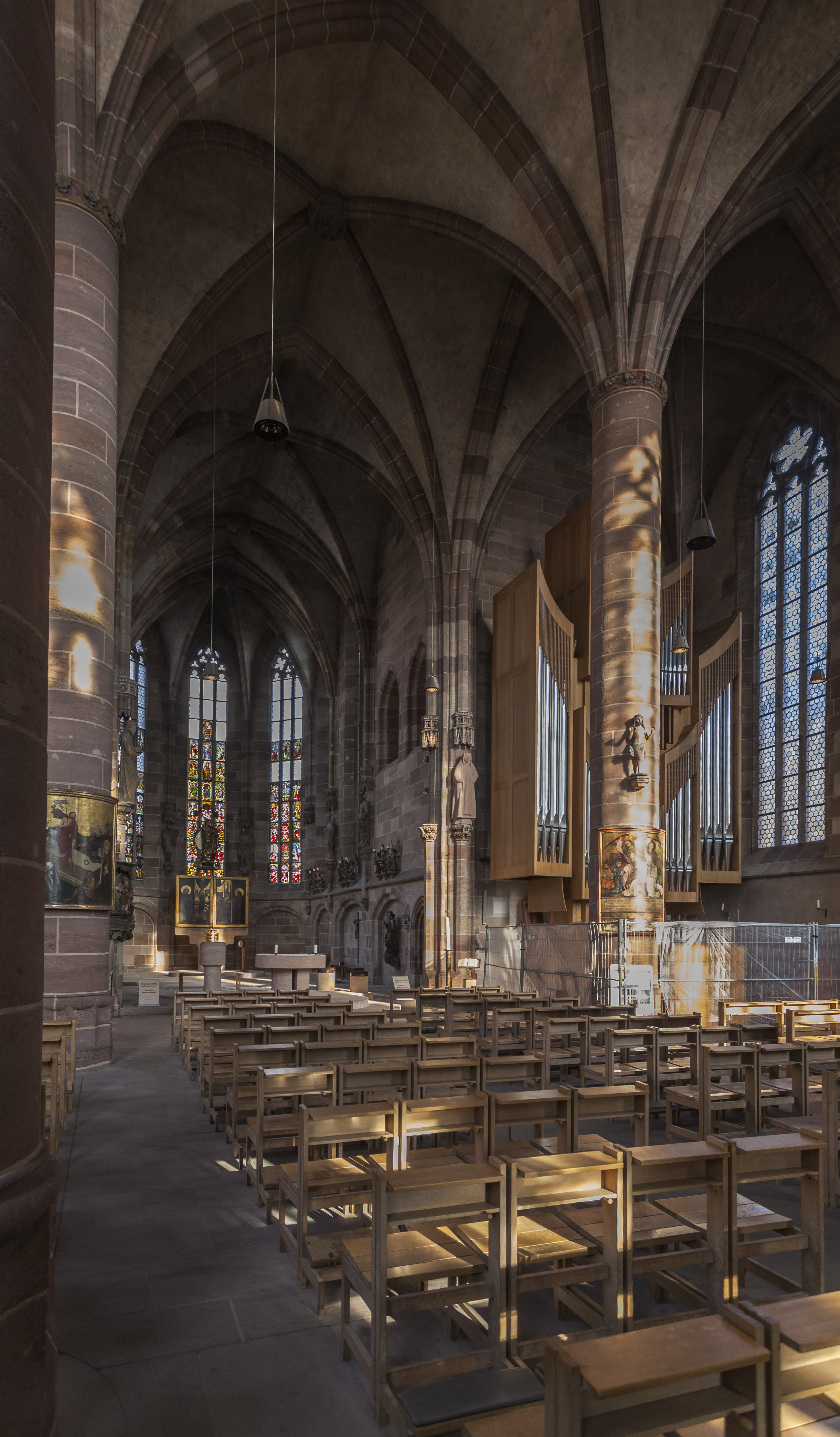 Church or Our Lady, Nuremberg, Germany